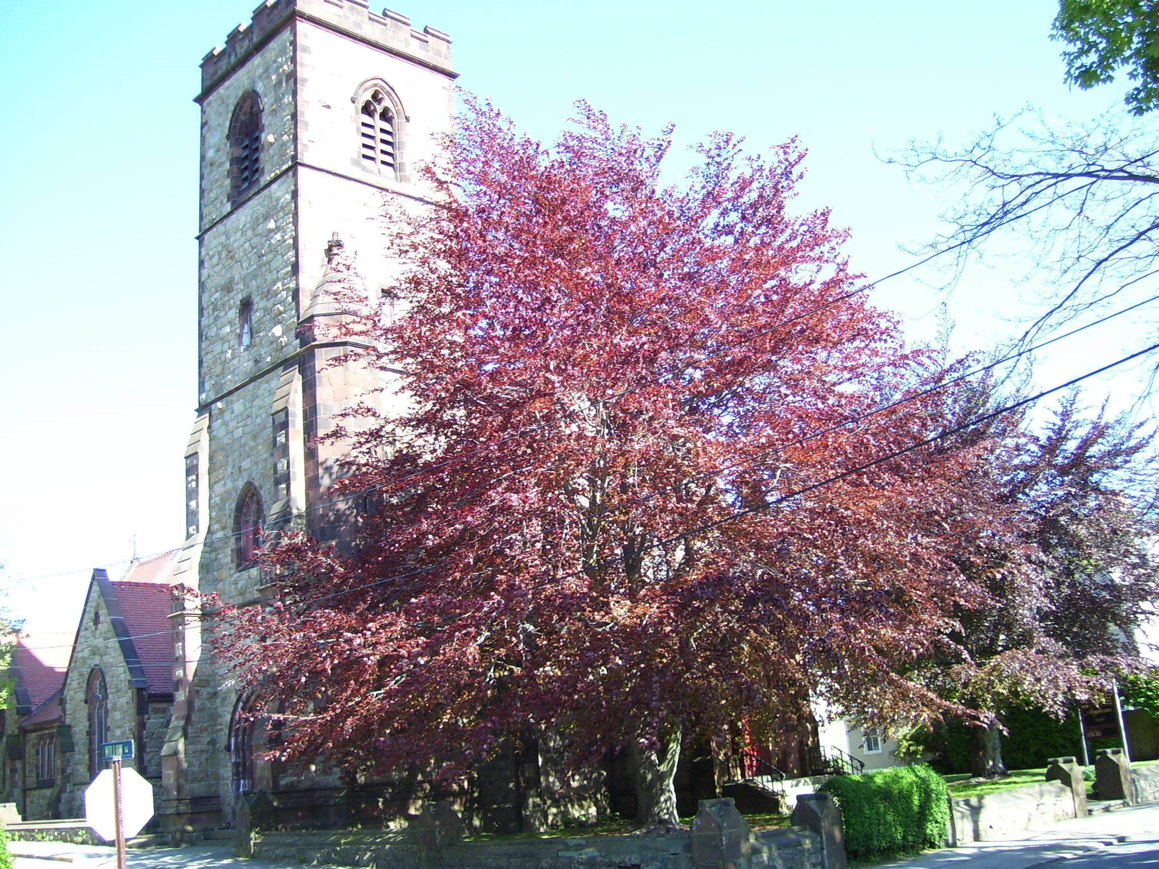 This is my 2008 photo of Saint John the Evangelist Church (Anglican Episcopal) in Easton's Point in Newport, Rhode Island, USA.